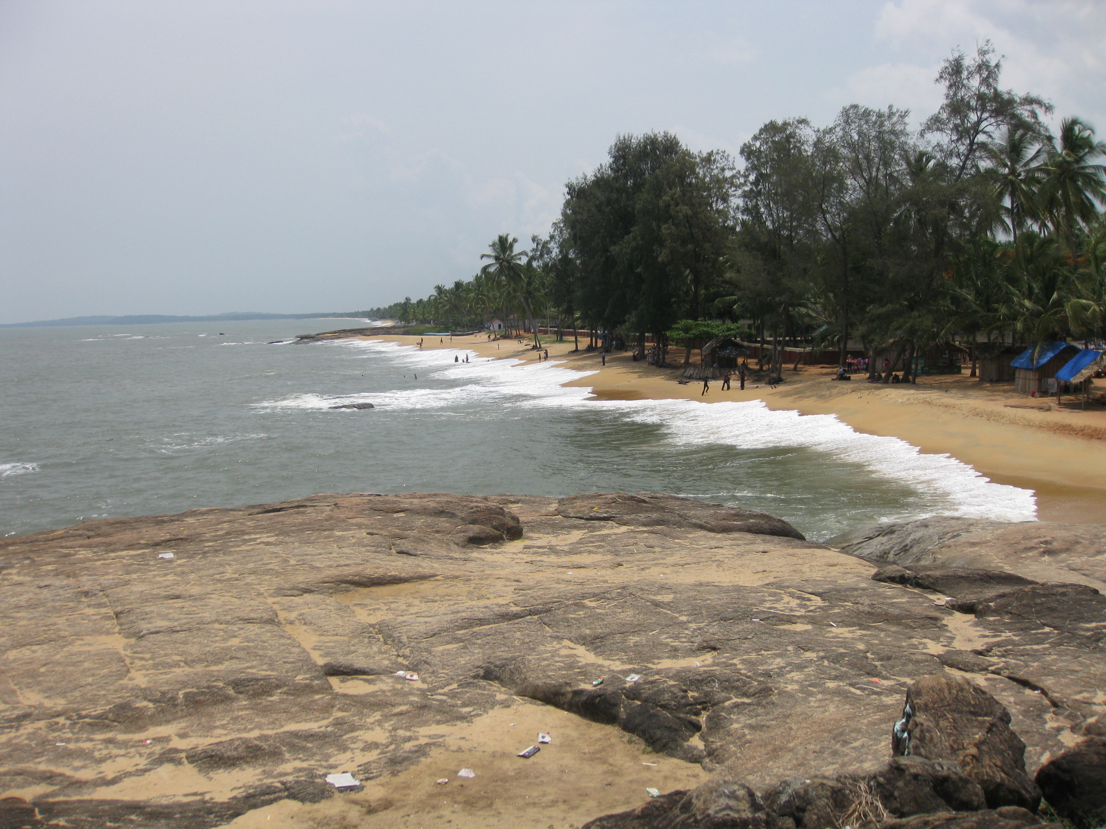 kappad beach long distance view